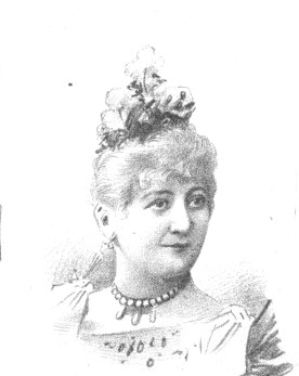 Portrait of Sophie König (1854-1943), German singer.